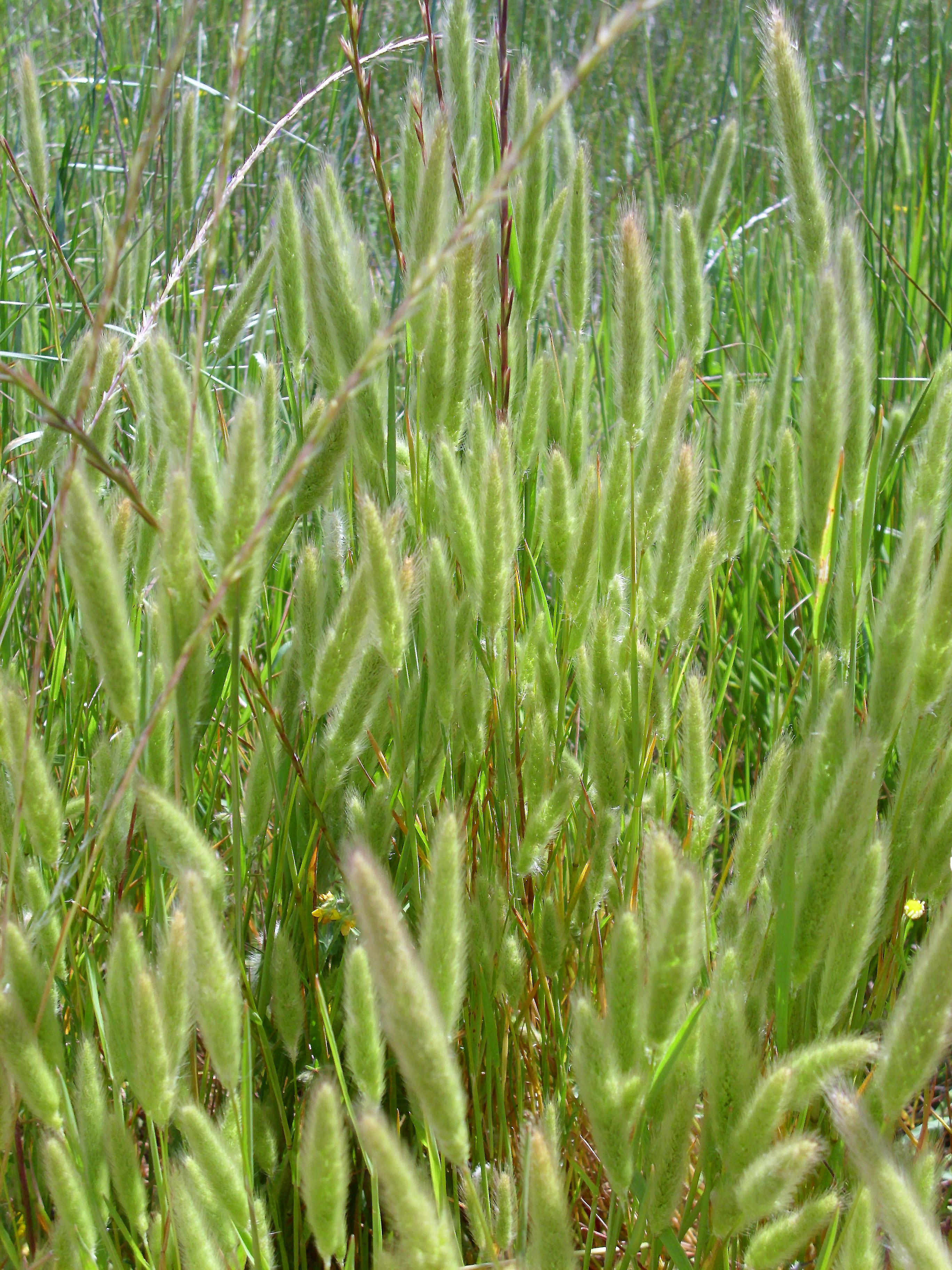 Polypogon monspeliensis habit, Dehesa Boyal de Puertollano, Spain